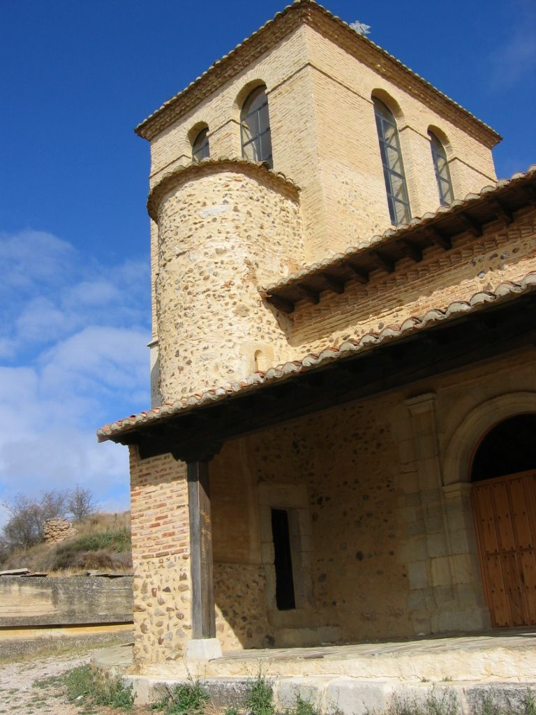 Iglesia de los Santos Justo y Pastor. Buenavista de Valdavia